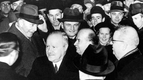 Finnish delegation on the railway station, departing for Moscow in order to negotiate with Stalin before the outbreak of the Winter War. Väinö Tanner in the foreground; J.K. Paasikivi to the right.